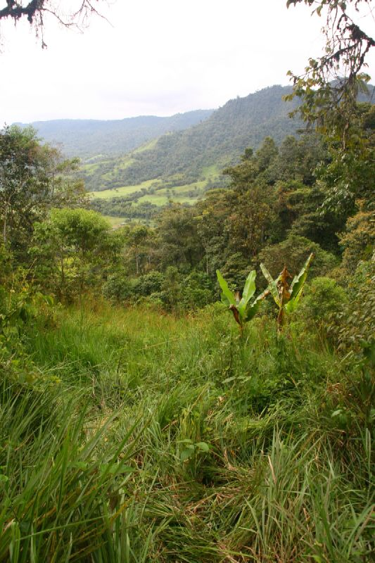 Cloud forest and grassland in the hills above Mindo, Ecuador.